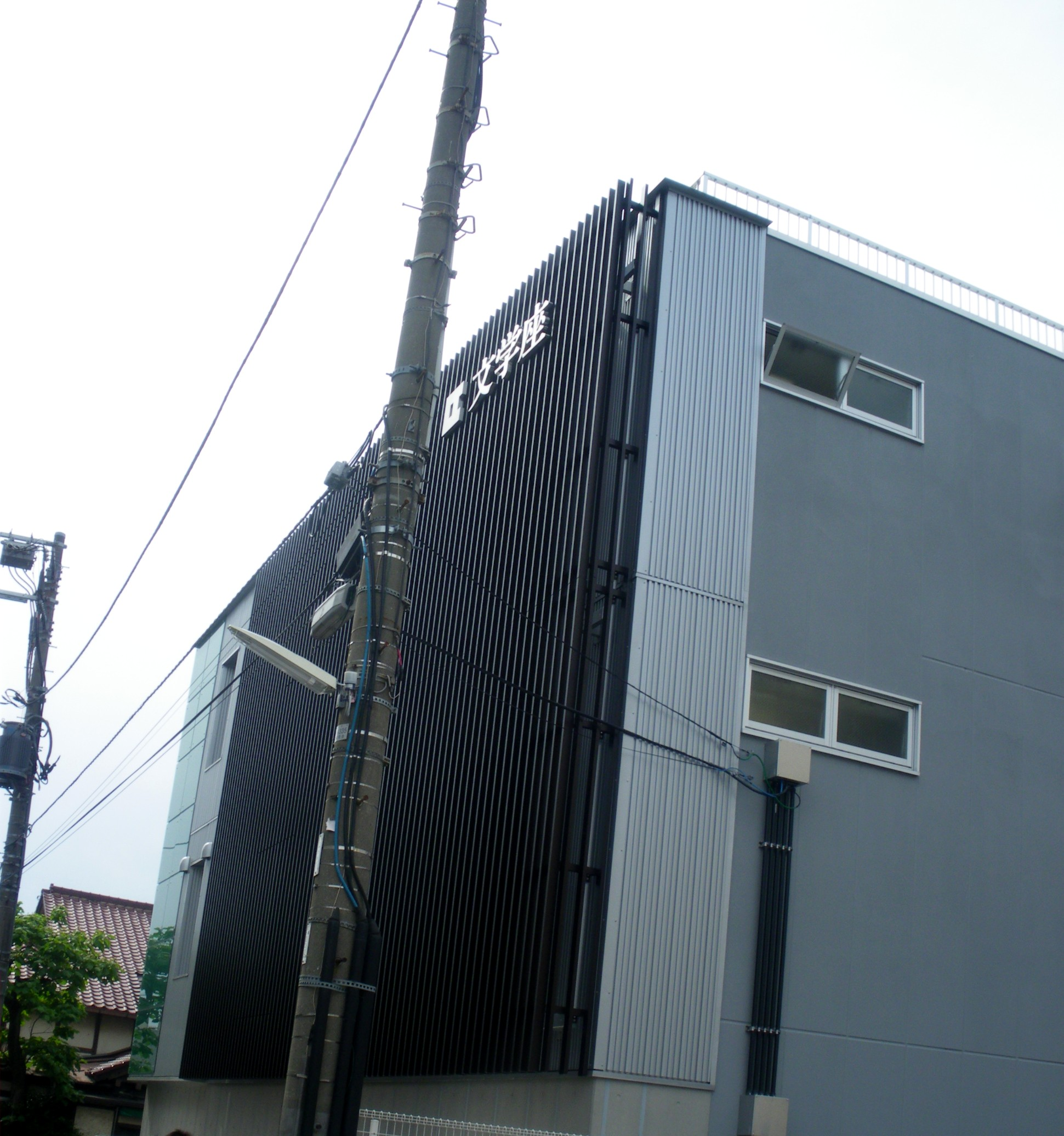 Bungakuza(Shinanomchi,Shinjuku,Tokyo)